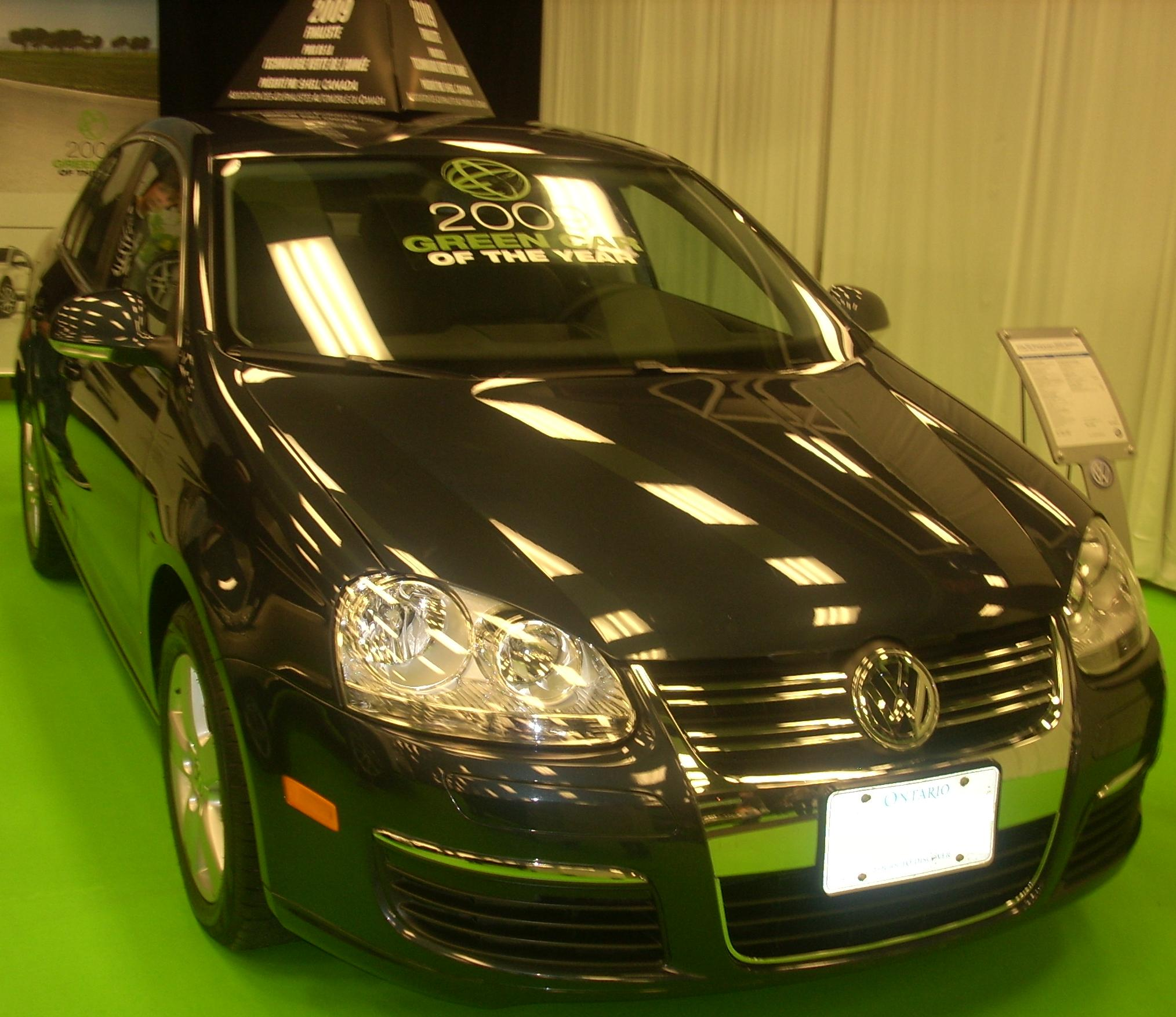 2009 Volkswagen Jetta photographed at the 2009 Montreal International Auto Show.